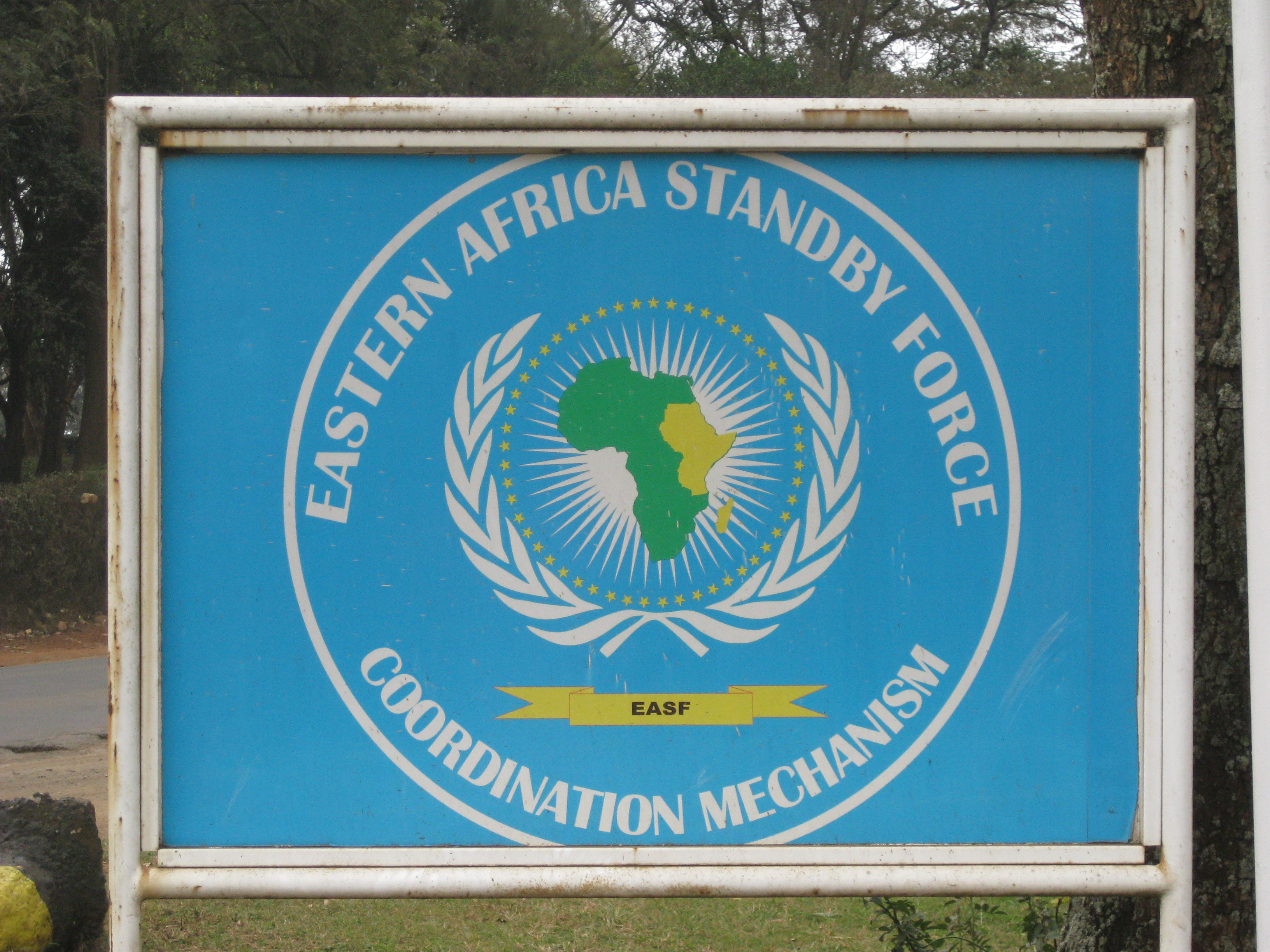 Eastern Africa Standby Force Coordination Mechanism highway sign at turnoff to Westwood Park Road, Karen, Nairobi. Taken 24 July 2014.